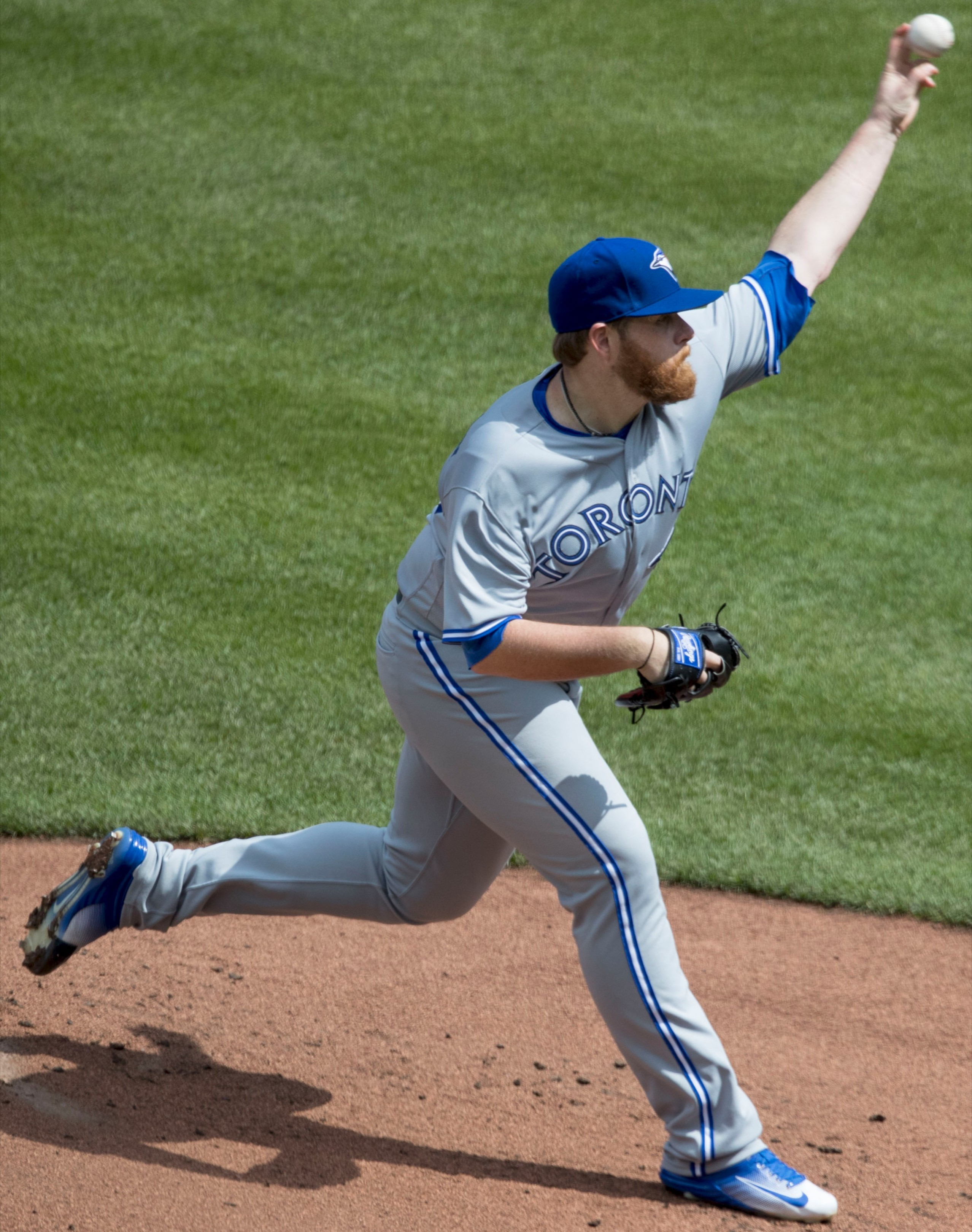 Brett Anderson of the Toronto Blue Jays pitches in a game against the Baltimore Orioles at Oriole Park at Camden Yards on September 3, 2017 in Baltimore, Maryland.